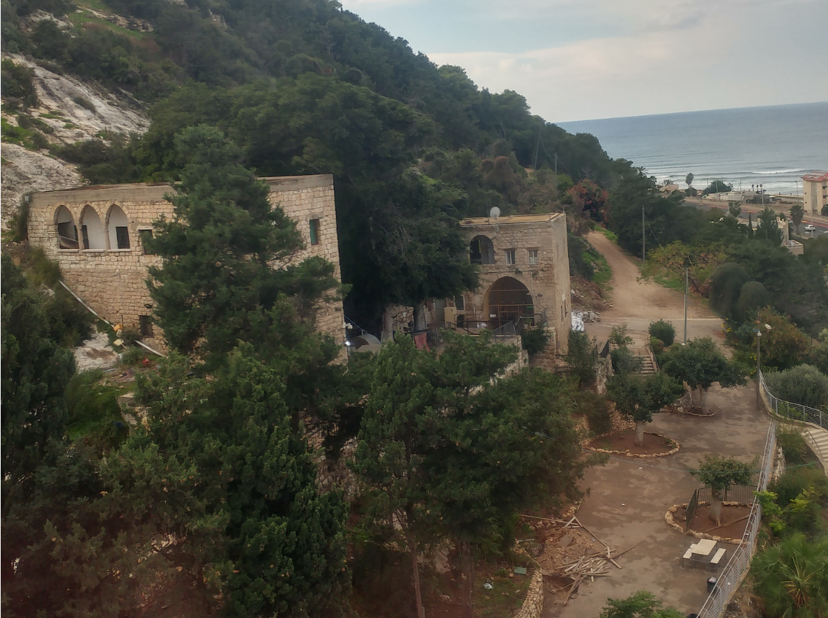 Two buildings for the pilgrims that were built at the entrance to Elijah's cave. Haifa, Israel.